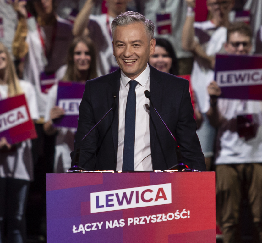 Robert Biedroń during the 2019 Polish parliamentary election